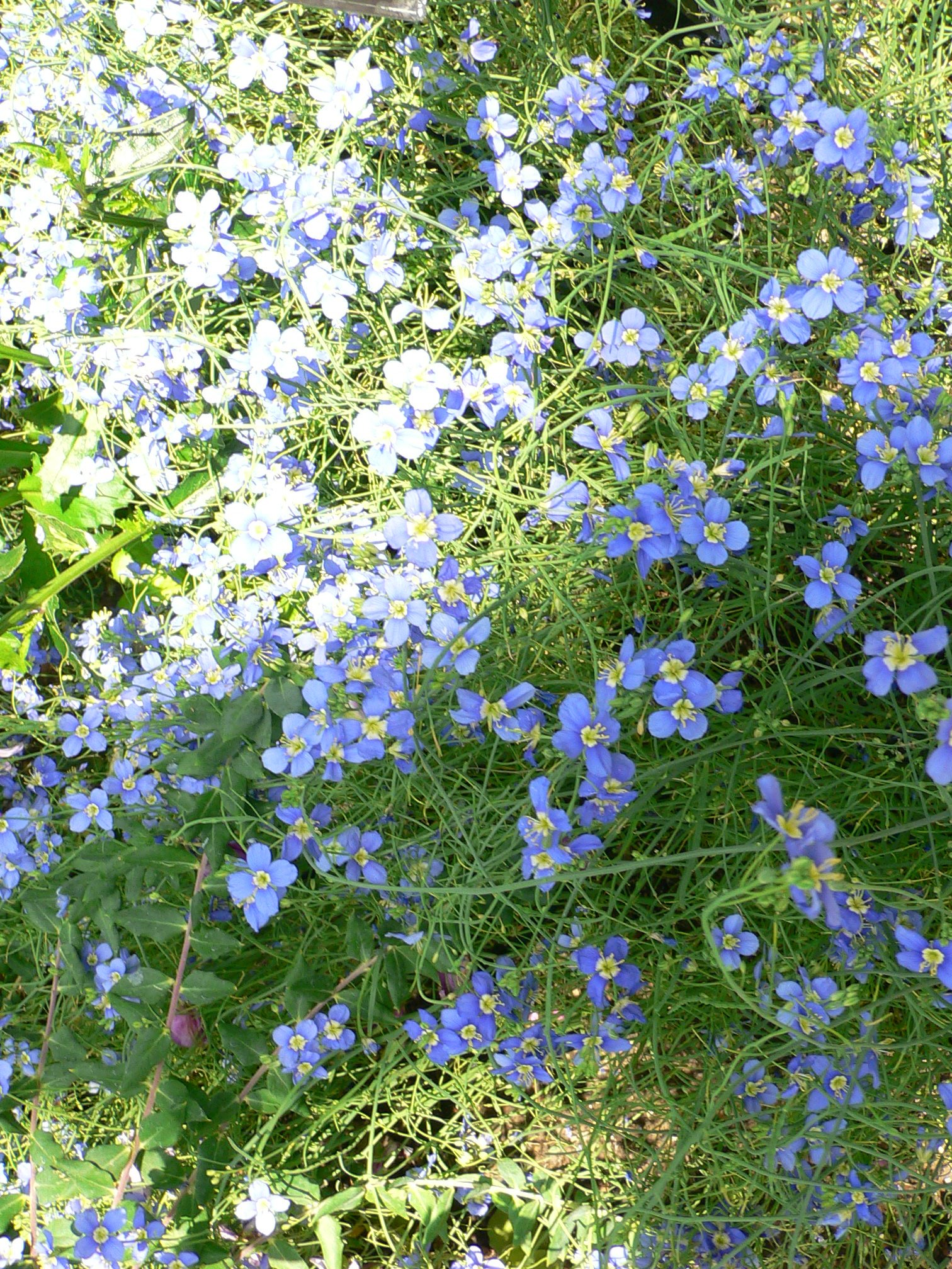 Pictures taken by myself at Longwood Gardens